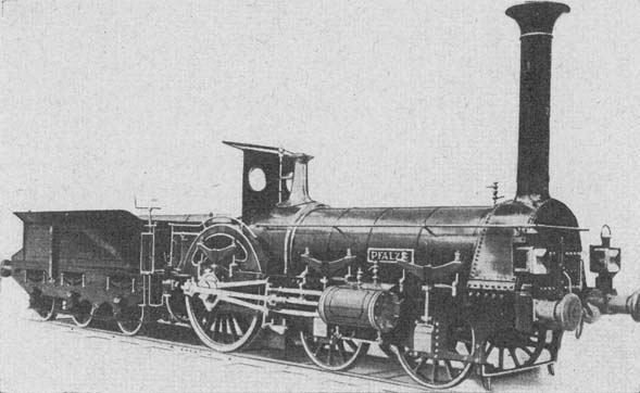 Crampton steam locomotive Pfalz.